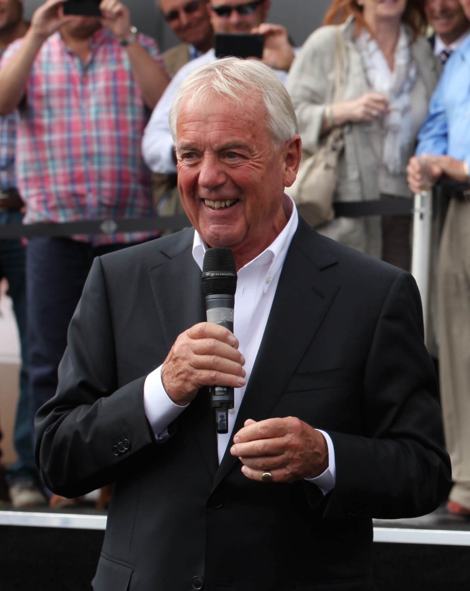 Robert Braithwaite CBE opening the Sunseeker Stand at Southampton Boat Show September 2014